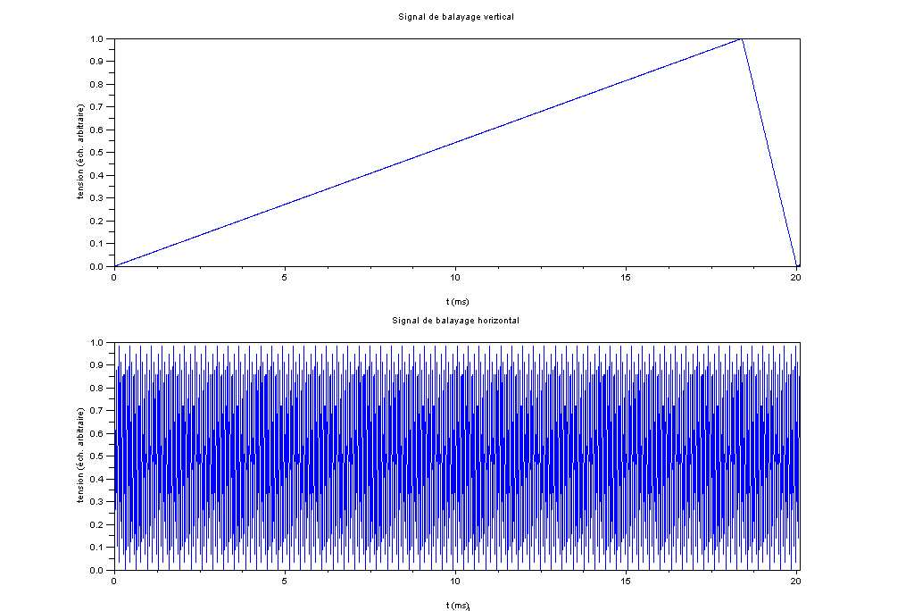 Television cathode ray tube scanning: voltage sent to the inductors (coils), assuming a 25 Hz system (PAL/SECAM), on a whole frame (interlaced scanning, one frame is 20 ms, 1/50 sec)